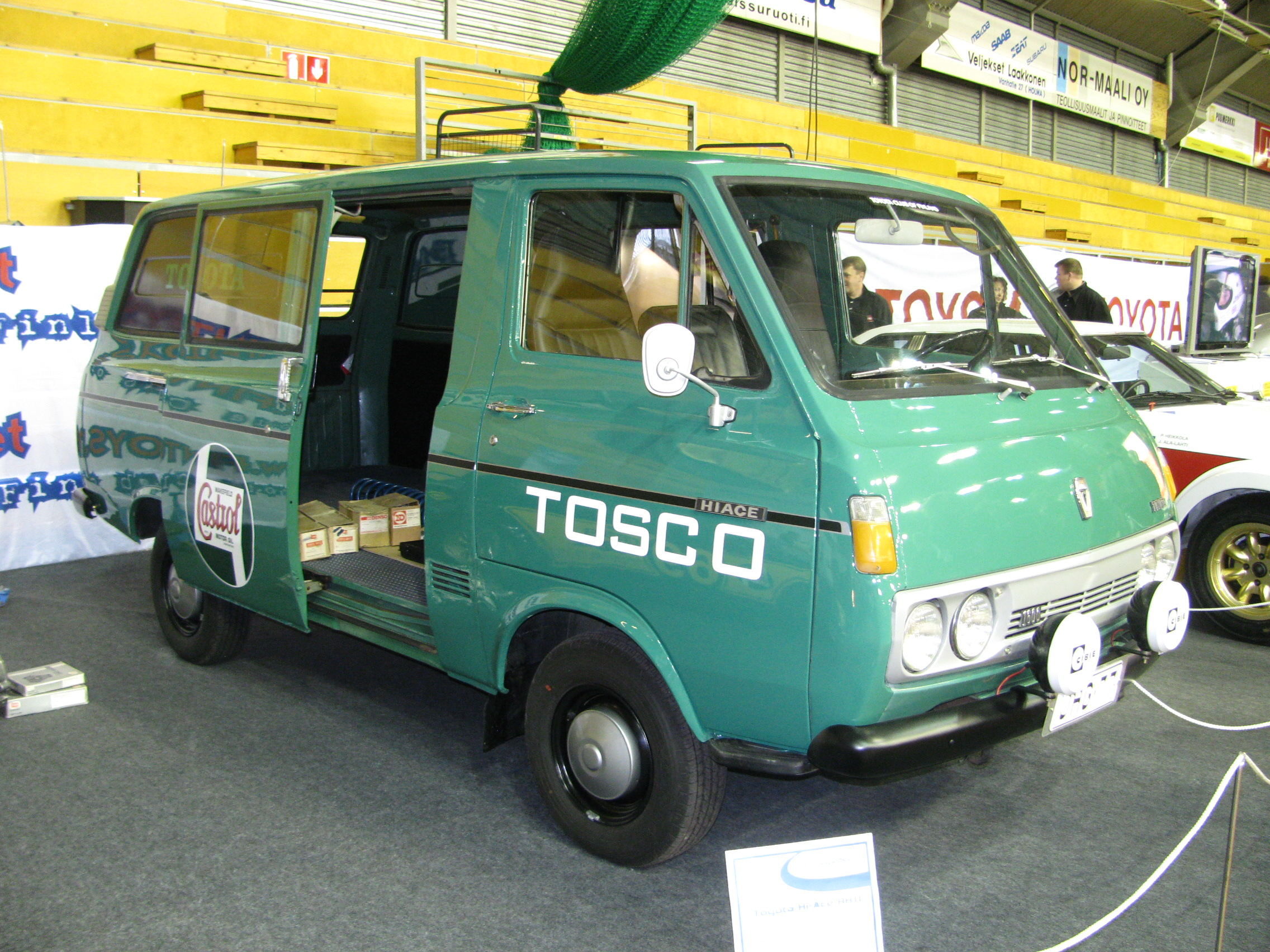 Toyota Hiace H10 van; Classic Motor Show in Lahti, Finland.